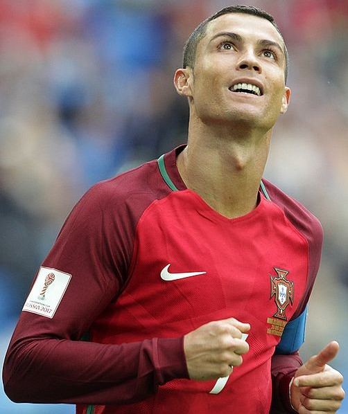 New Zealand VS. Portugal 0 - 4, 24 June 2017